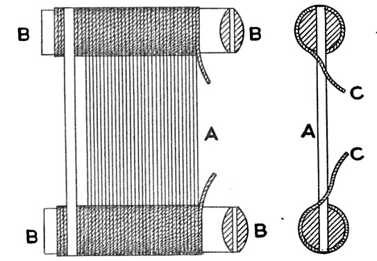 Diagram showing the various parts of a reed, with little letters: A is the wires or dents (teeth) B is the wooden ribs that hold the reed together C is the tarred cotton cord that bind the reed together